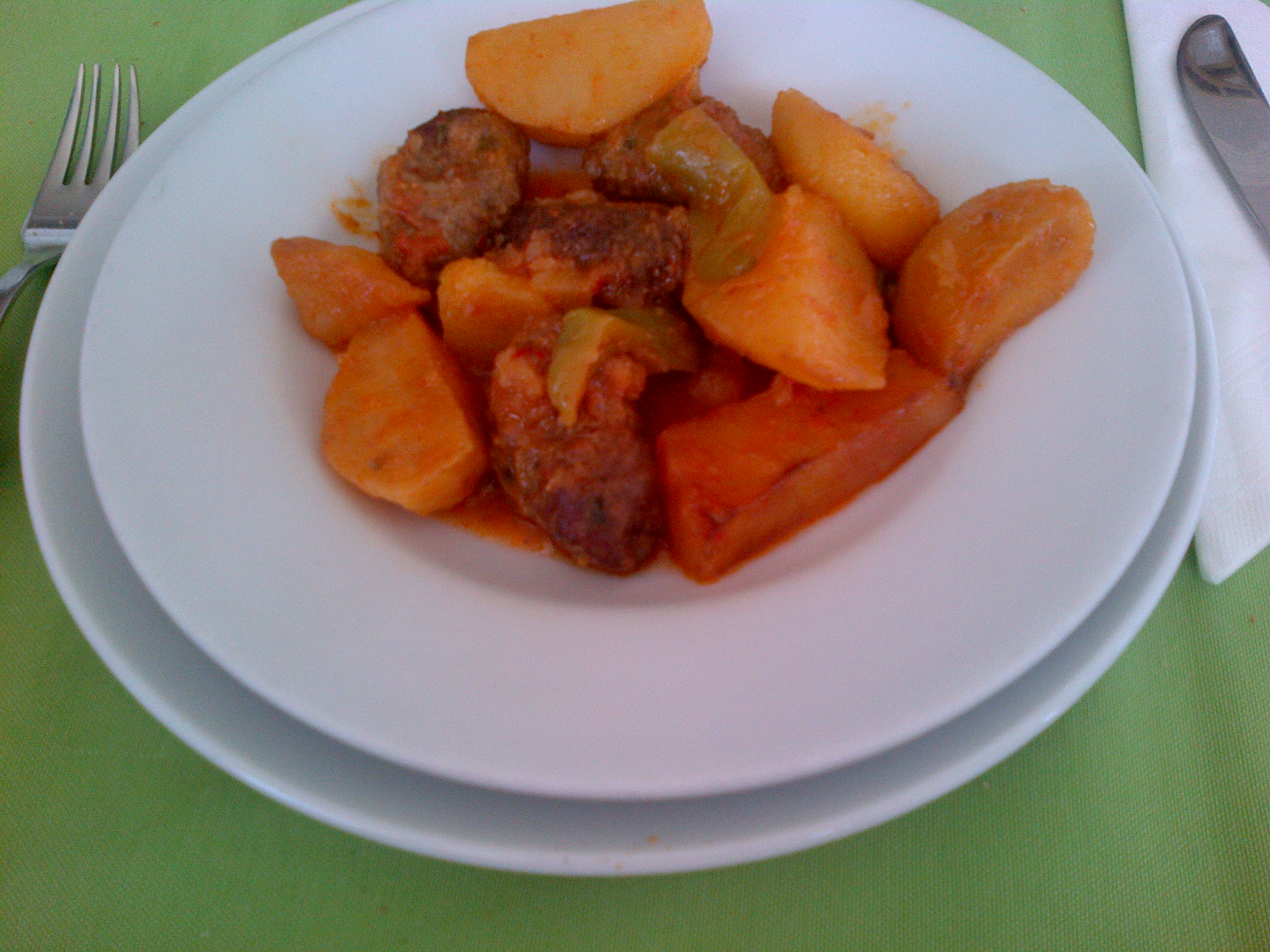 "İzmir köfte", Turkish meatballs from Izmir.